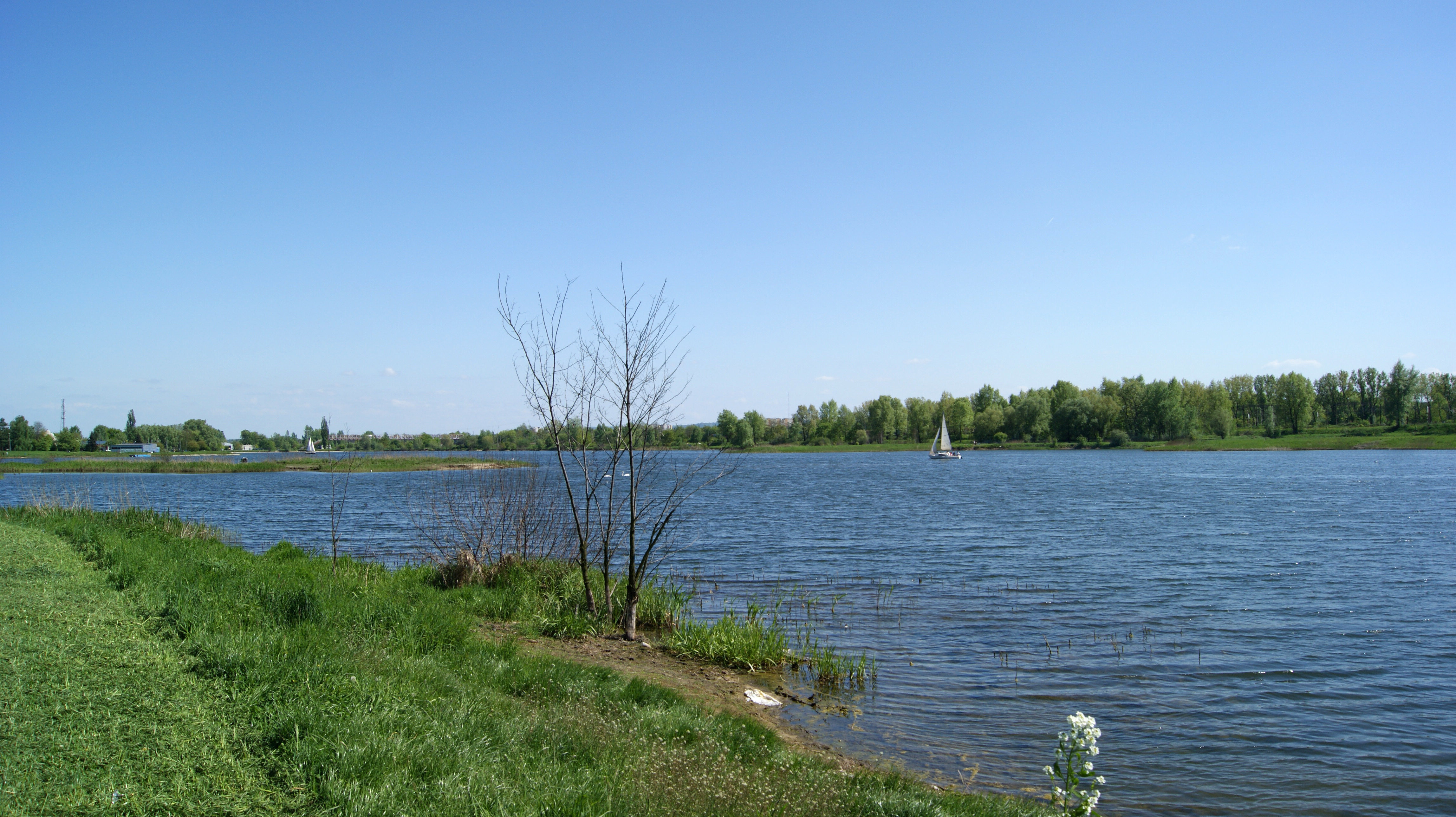 Bagry Lake, Krakow, Poland